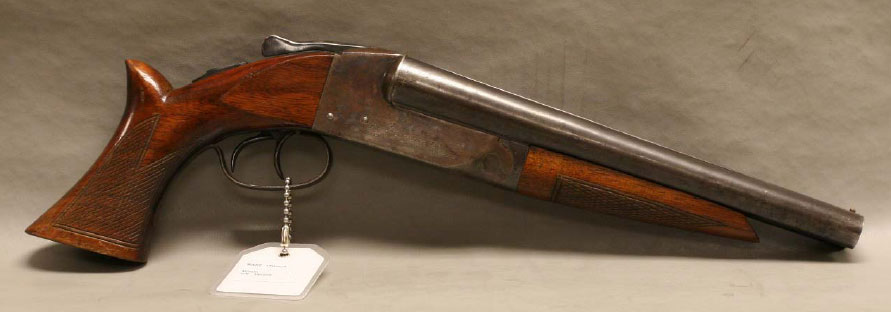 Ithaca Auto And Burglar Gun Model A